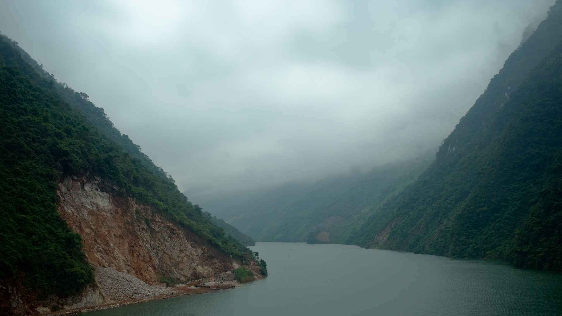 Black River, taken from Hang Tôm bridge near Mường Lay town, Điện Biên province, Vietnam